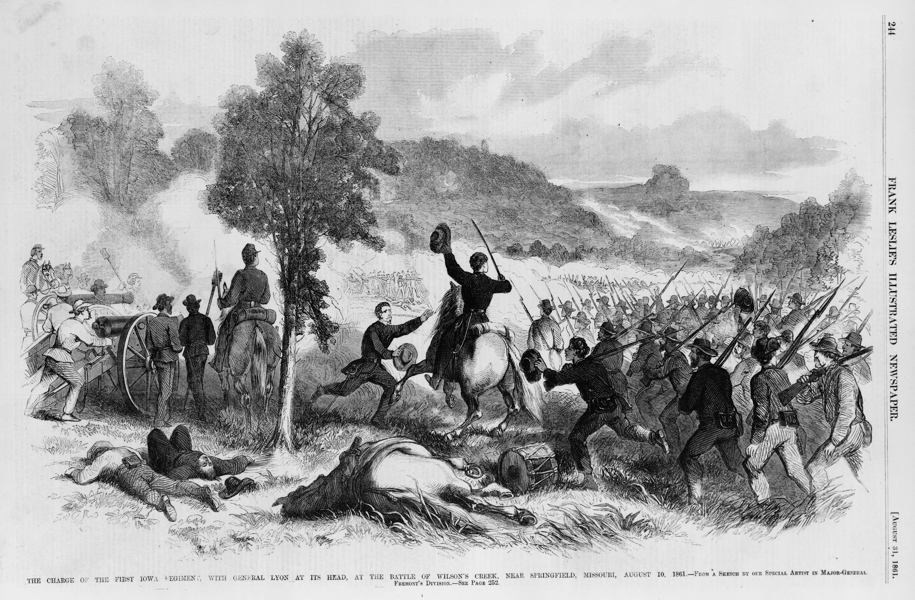 Original caption: The charge of the First Iowa Regiment, with General Lyon at its head, at the Battle of Wilson's Creek, near Springfield, Missouri, August 10, 1861 / from a sketch by our special artist in Major-General Fremont's Division.